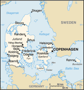 A map of Denmark, showing major cities.